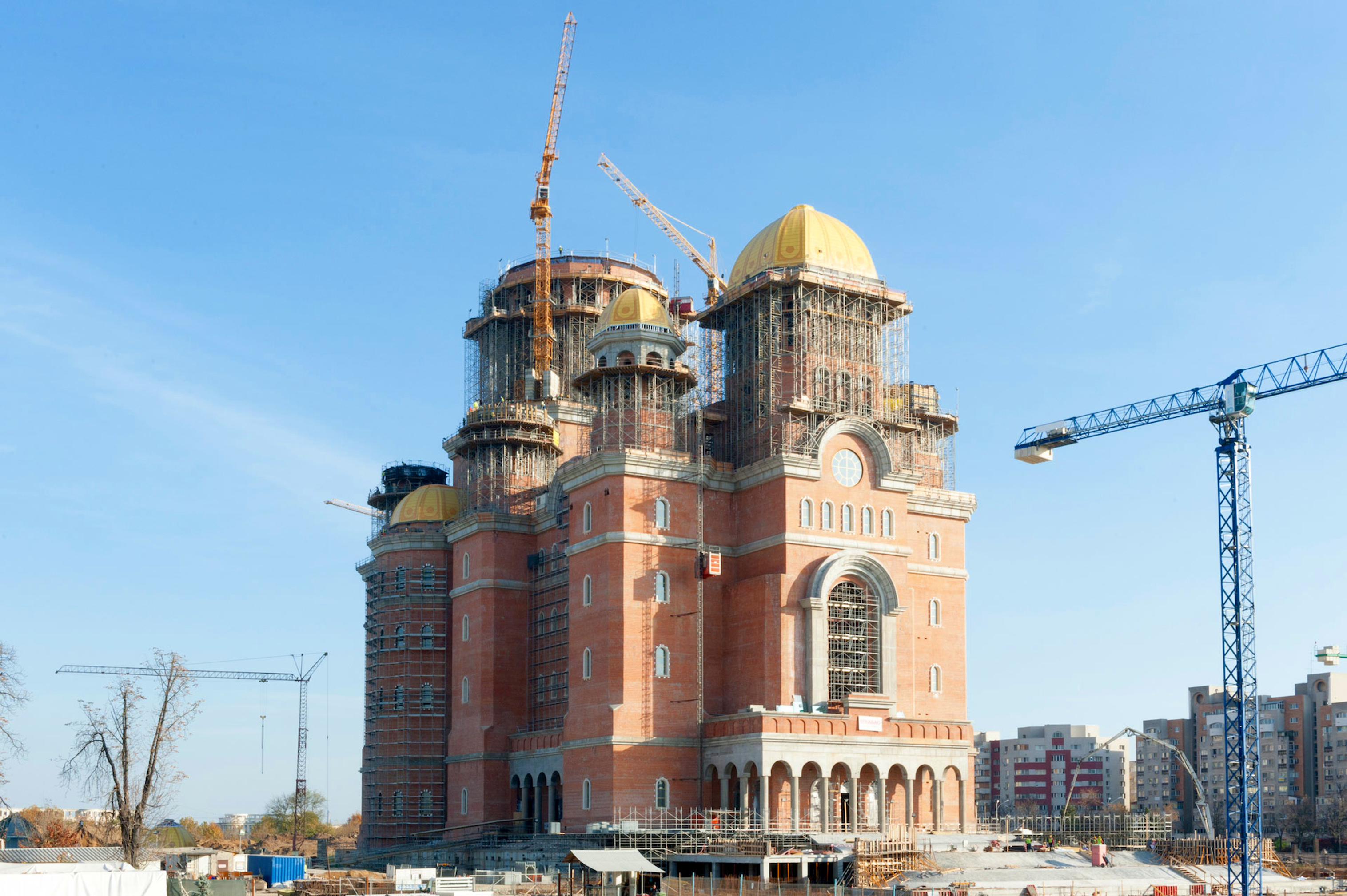 People's Salvation Cathedral, Bucharest (2018 November)